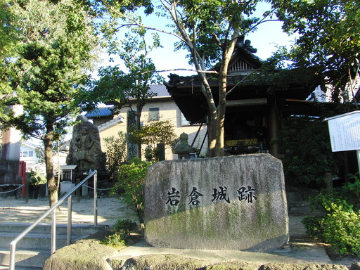 Iwakura castle site (Aichi Prefecture, Japan)